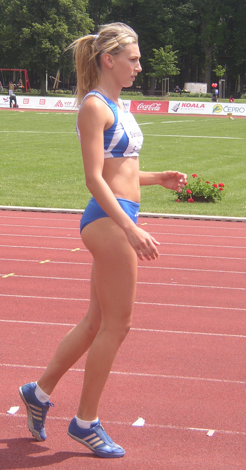 Athlete Lucia Slaničková of Slovakia prepares for her attempt in long jump during women's heptathlon at 4th edition of the TNT - Fortuna Meeting (IAAF World Combined Events Challenge Meeting, Sletiště Stadium, Kladno, Czech Republic, 16 June 2010, 13:06). Slaničková improved her personal best in heptathlon from 5458 to 5684 points at this competition.